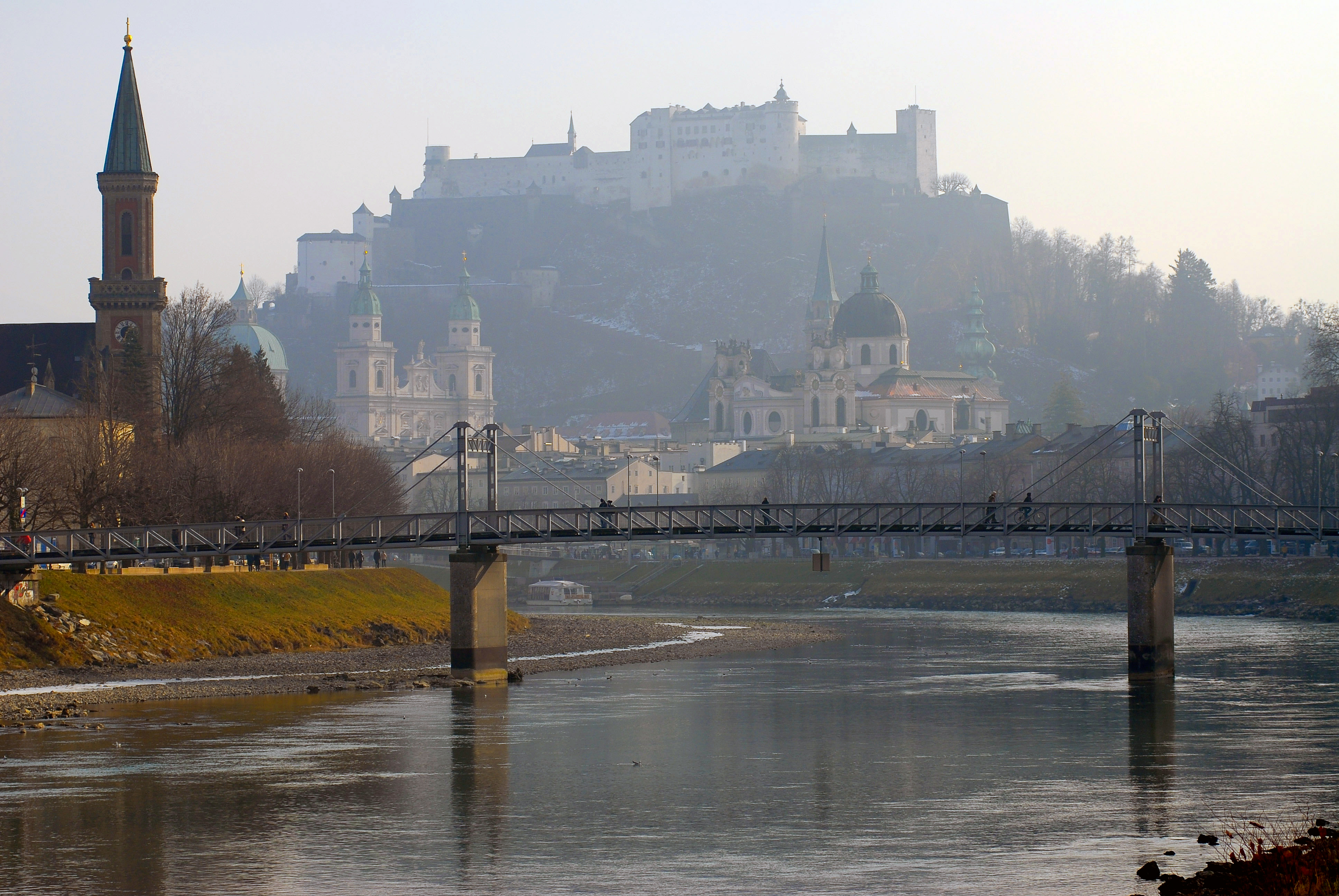 View of Salzburg